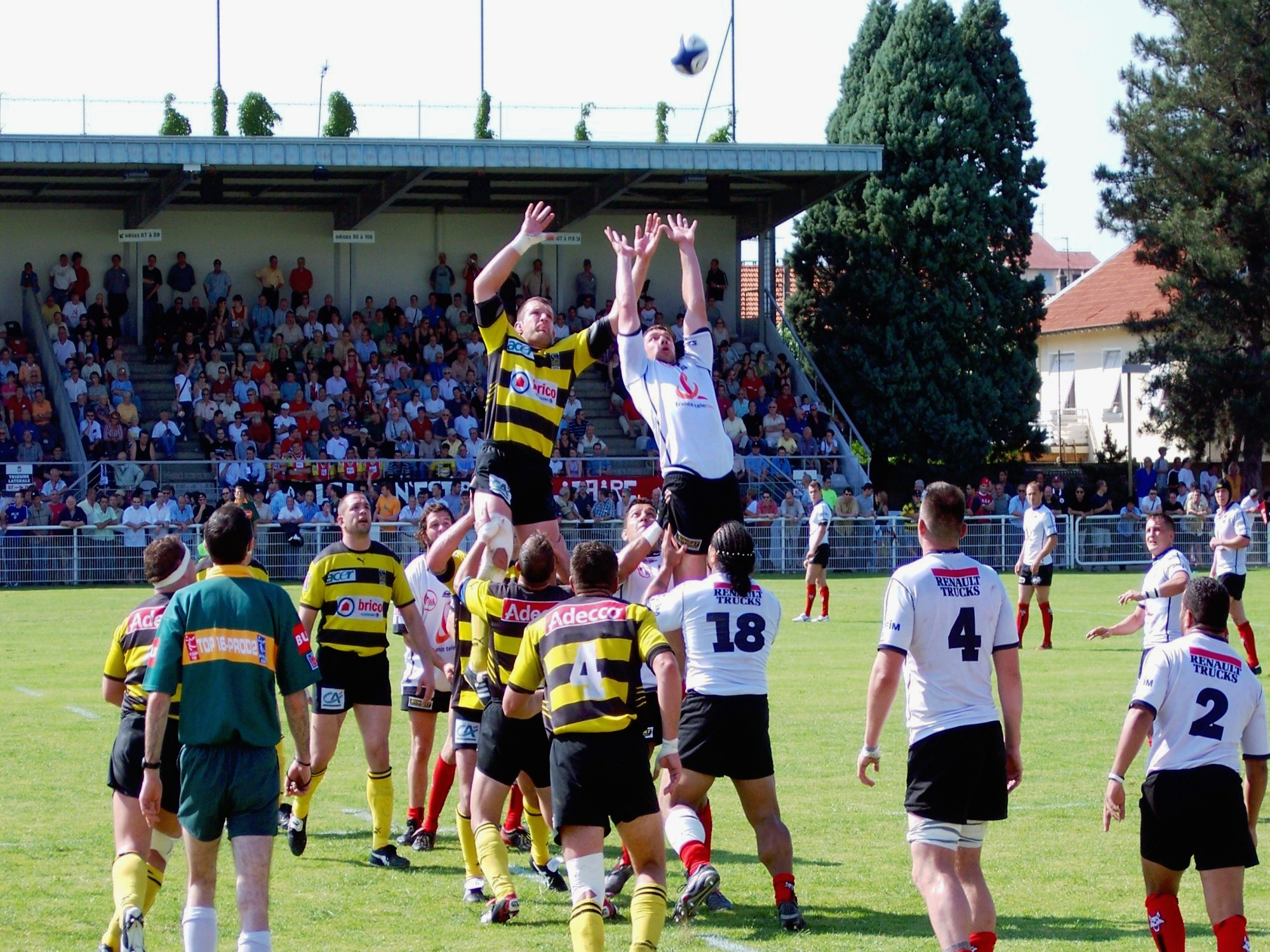 The LOU Rugby against the Stade Montois at the Vuillermet Stadium in Lyon, Pro D2 season 2004-2005